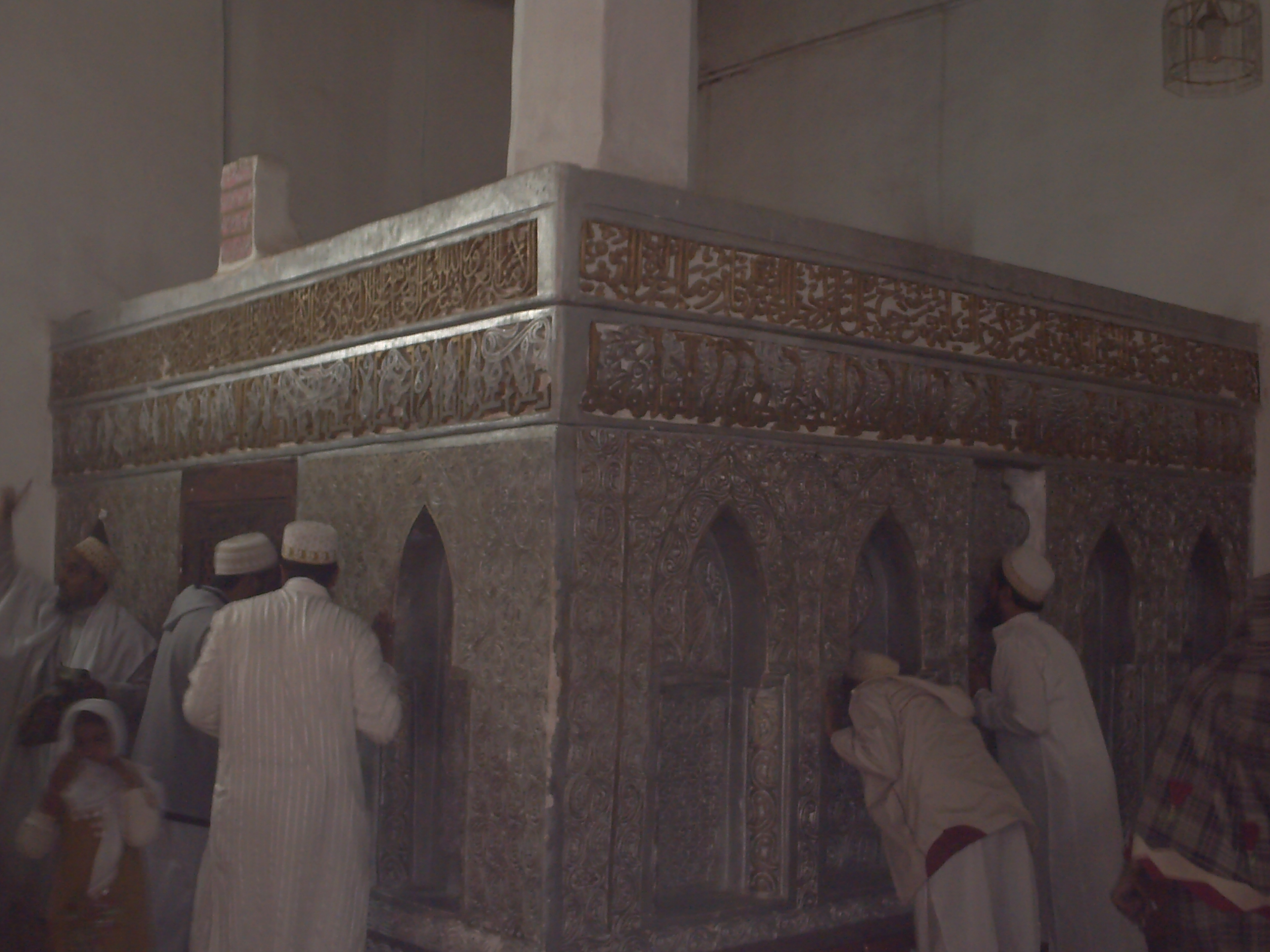 Mausoleum of Hurrat-ul-Malaika Arwa — at Queen Arwa mosque, Jibla, Yemen.